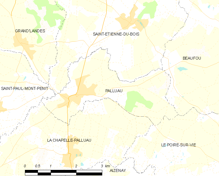 Map of French municipality Palluau